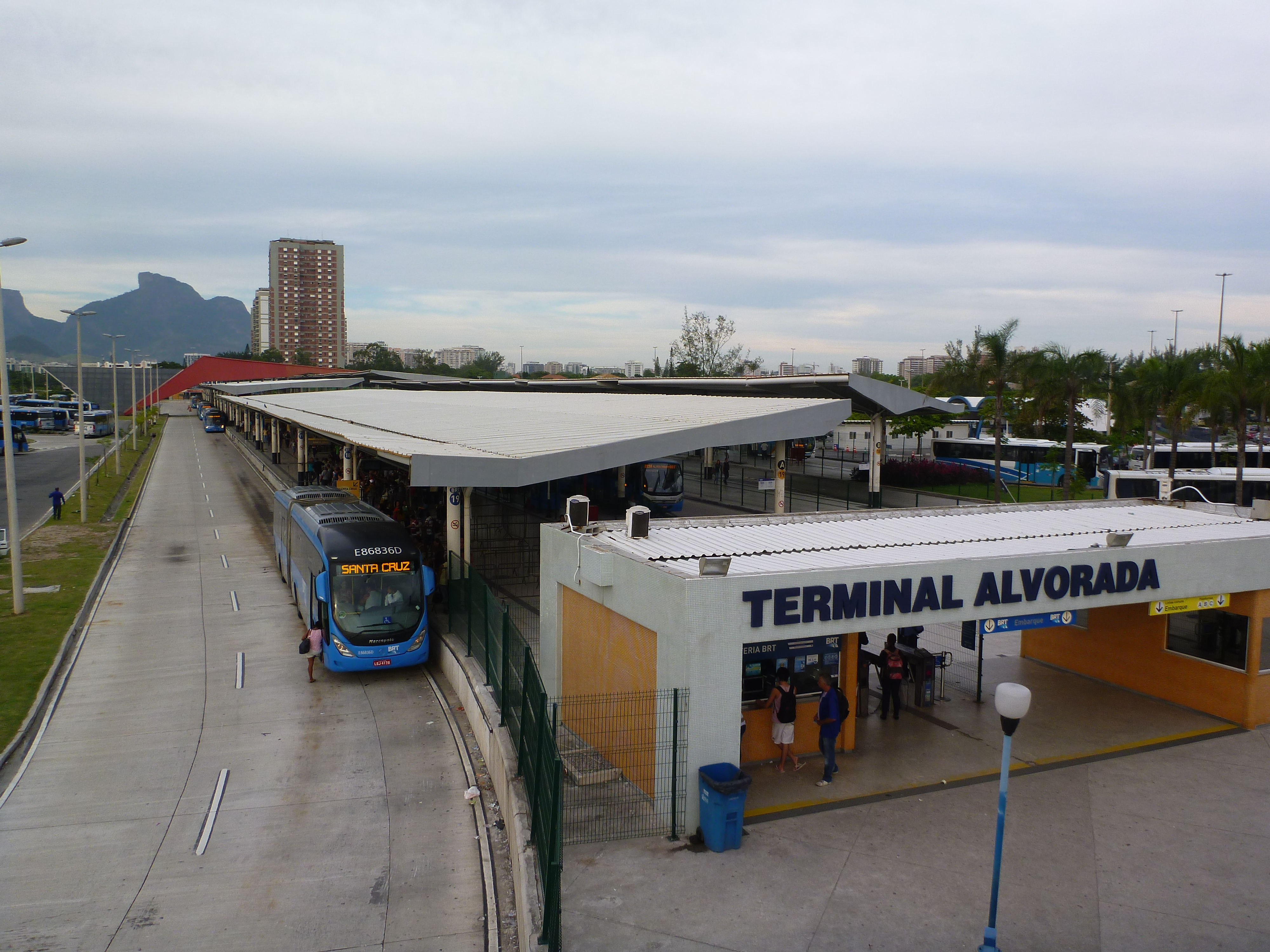 Terminal Alvorada in Barra da Tijuca in the city Rio de Janeiro from above. Left the platform for the BRT busses, right the platform for the city busses